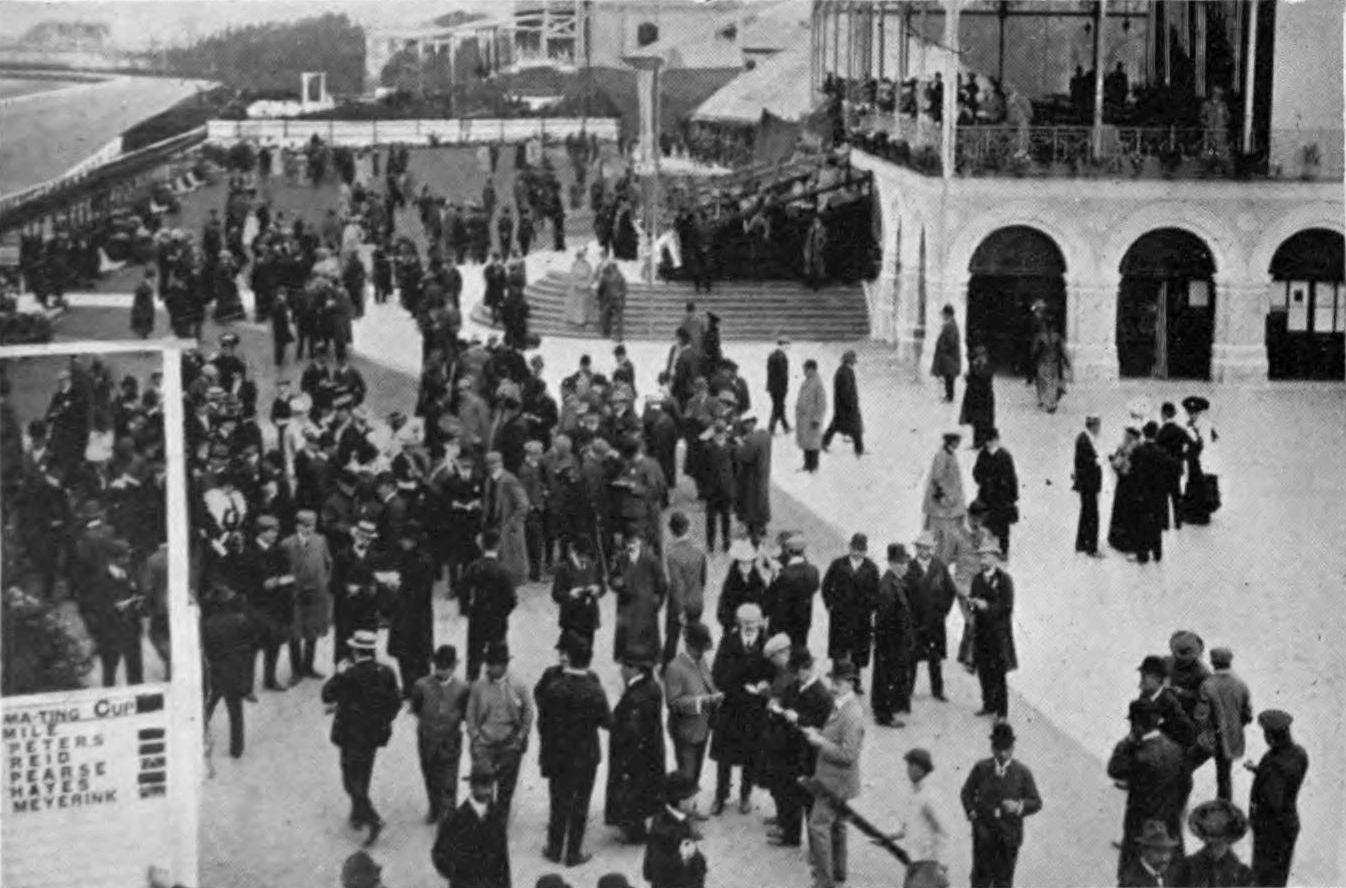 shanghai horse race track